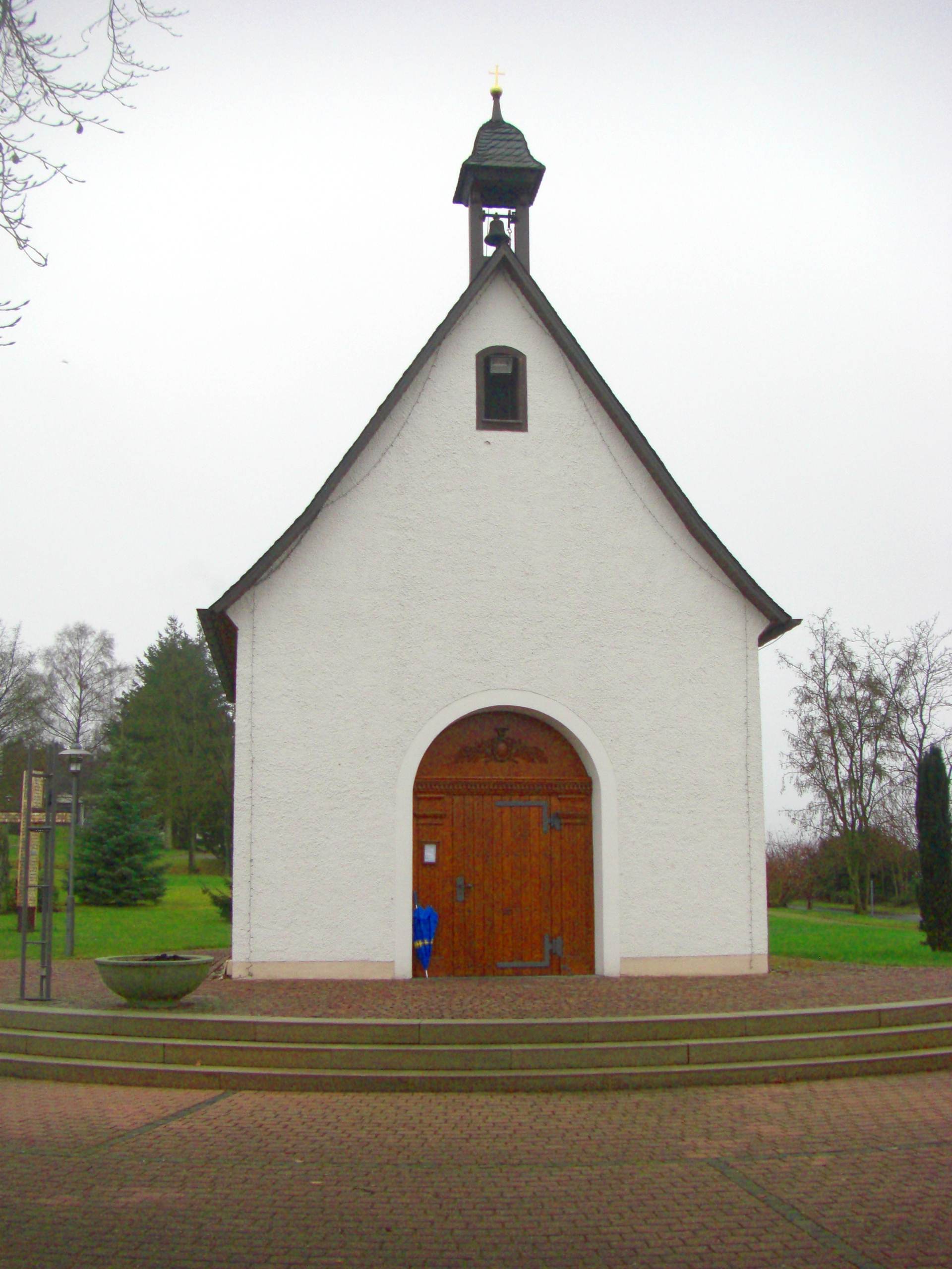 Schoenstatt shrine in Dietershausen, Diocese of Fulda (Germany).